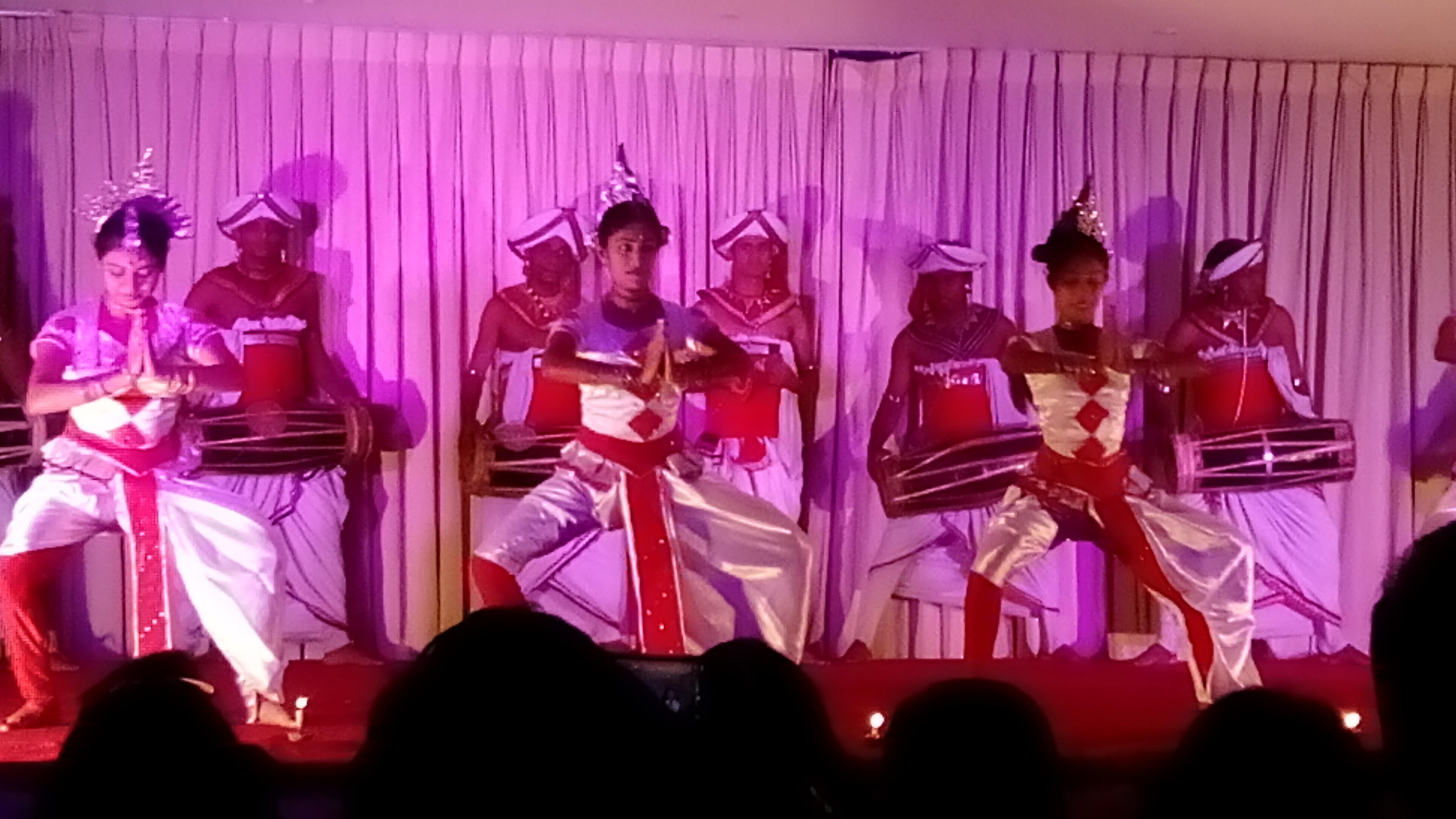 Puja Natuma, The Oak- Ray Kandyan Dance of Sri Lanka